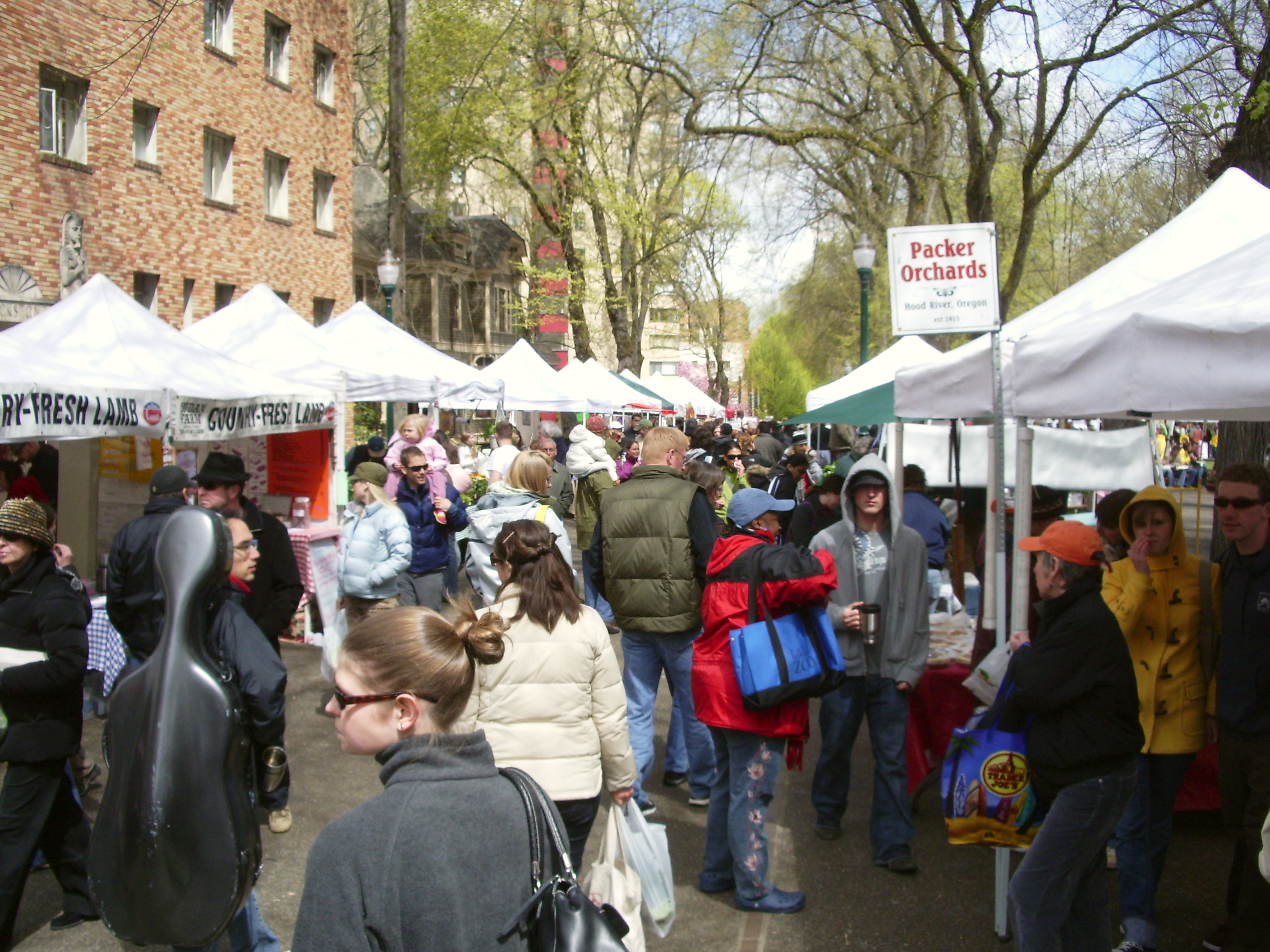 Portland Farmers Market seen from the southwest corner in the midst of Portland State University's campus. The poor attendance this day was partially due to unusual unseasonably cold weather with light snow flurries.